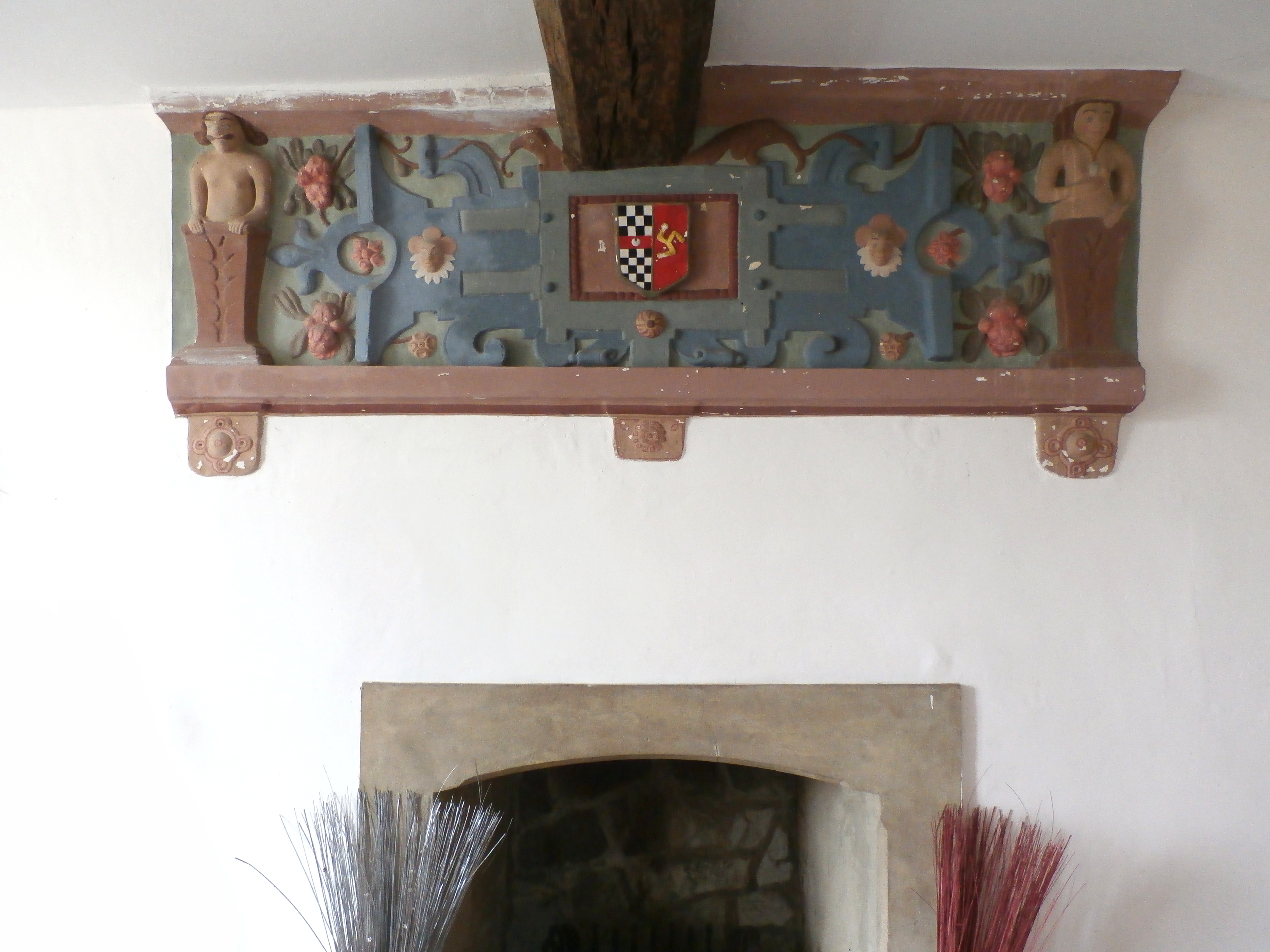 1615 plaster overmantel in the "Inner Room", next to the Great Hall in Hawkridge Barton, Chittlehampton, Devon, showing the arms of Acland (Chequy argent and sable, a fesse gules) impaling Tremayne (Gules, three dexter arms conjoined at the shoulders and flexed in triangle or the fists clenched argent), representing the 1615 marriage of Baldwin II Acland (1593-1659) and Elizabeth Tremayne. It consists of "a strapwork cartouche with small heads probably of Cain and Abel to each side flanked by foliage and figures of Adam and Eve, with the serpent above".(Listed building text)